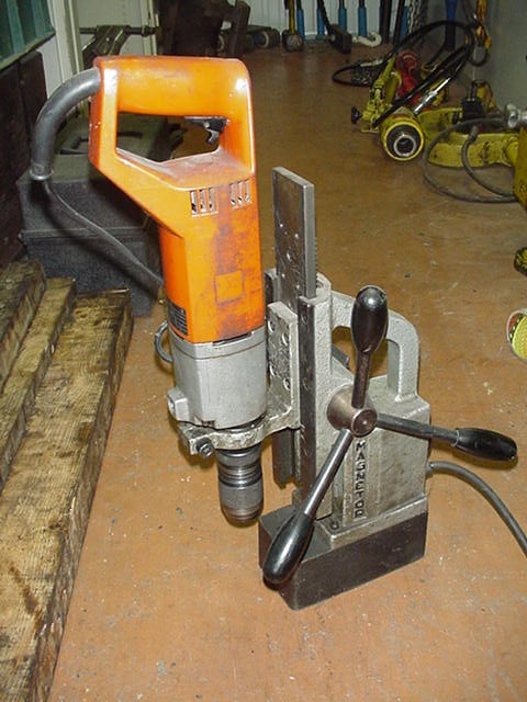 Magnetic drill rig with clamped power drill